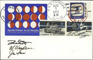 Space-flown phases of the moon cover for Apollo 15